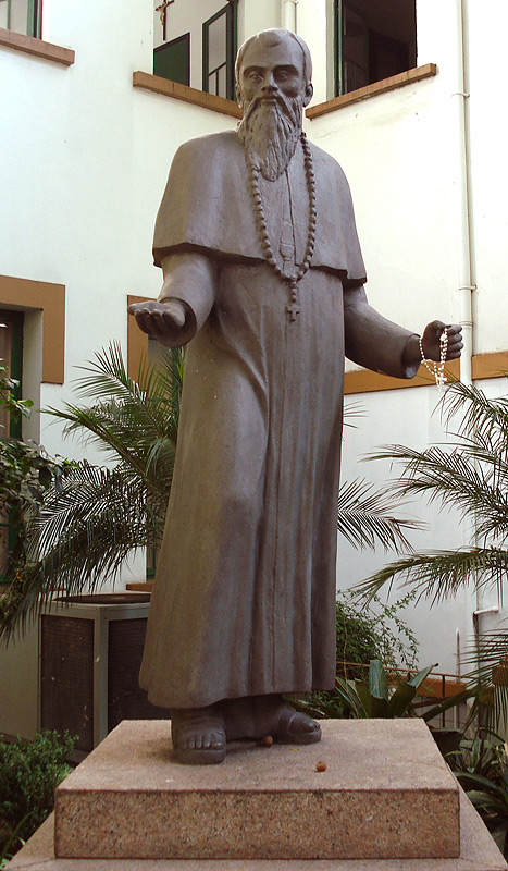 Statue of fray Joaquim Francisco do Livramento, founder of Santa Casa de Misericórdia de Porto Alegre, Brazil.